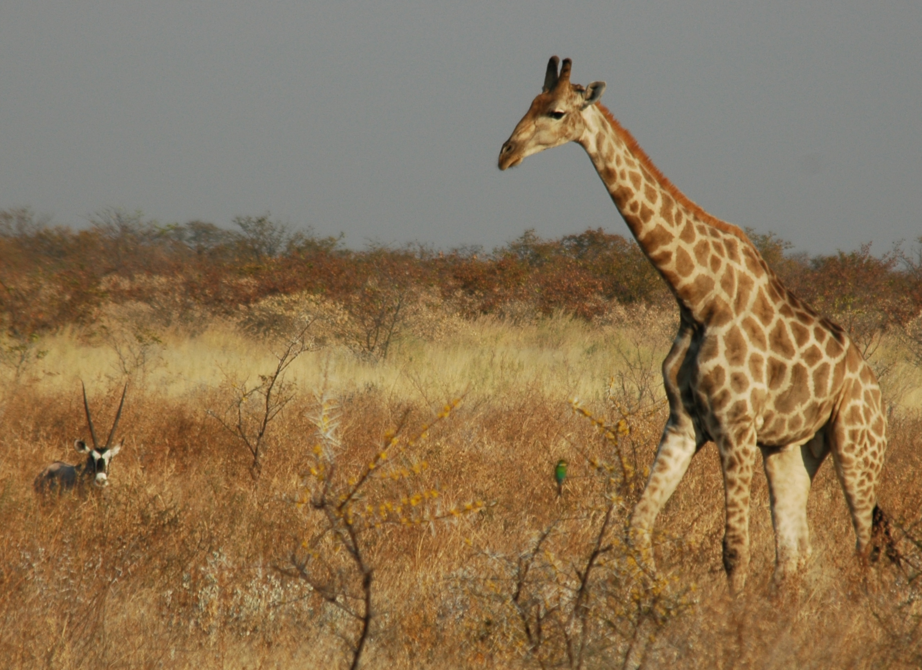 A bull Southern savannah giraffe in the Etosha National Park, Namibia